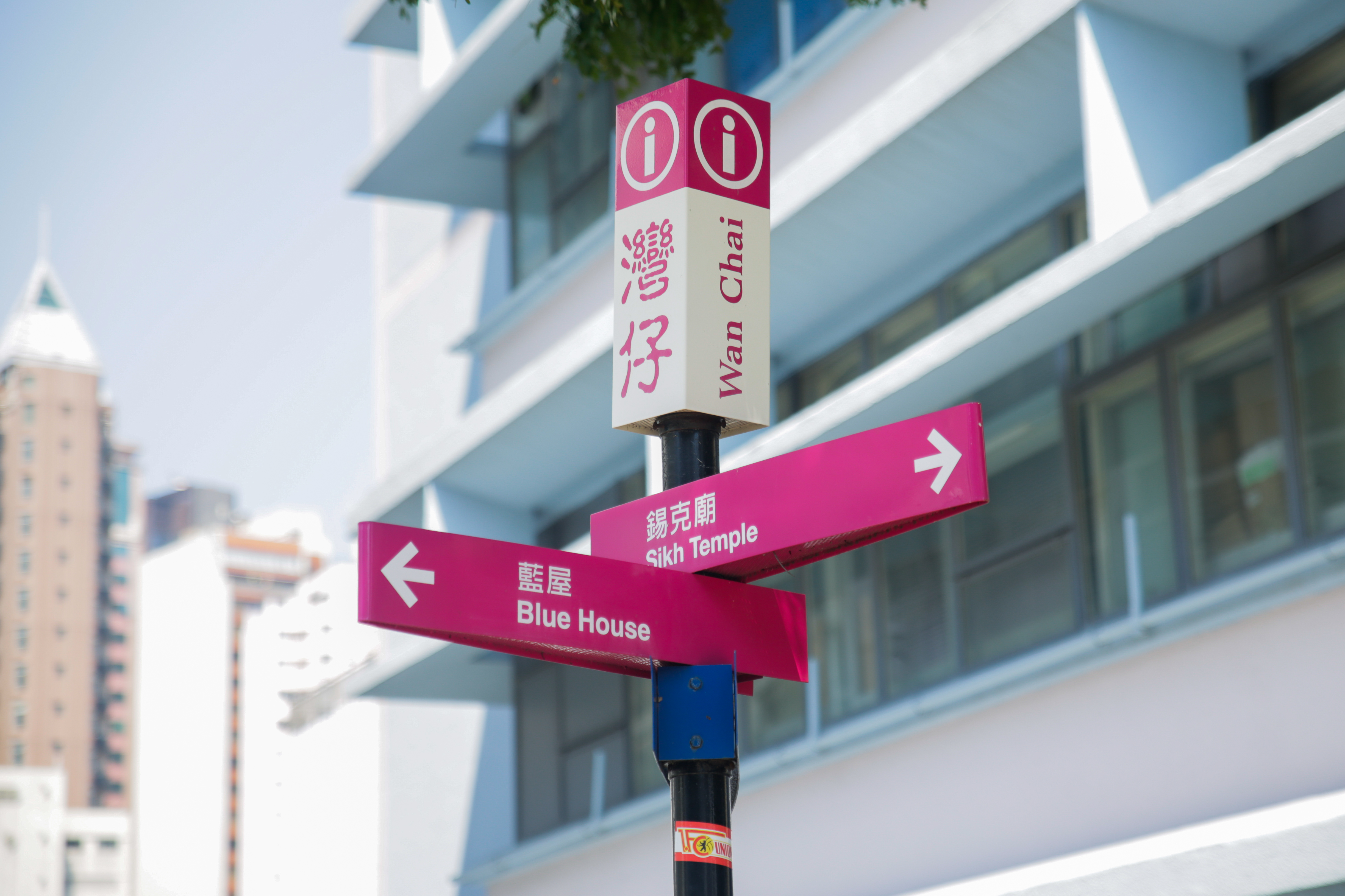 Direction sign showing the way to Khalsa Diwan Sikh Temple, Wan Chai, Hong Kong.